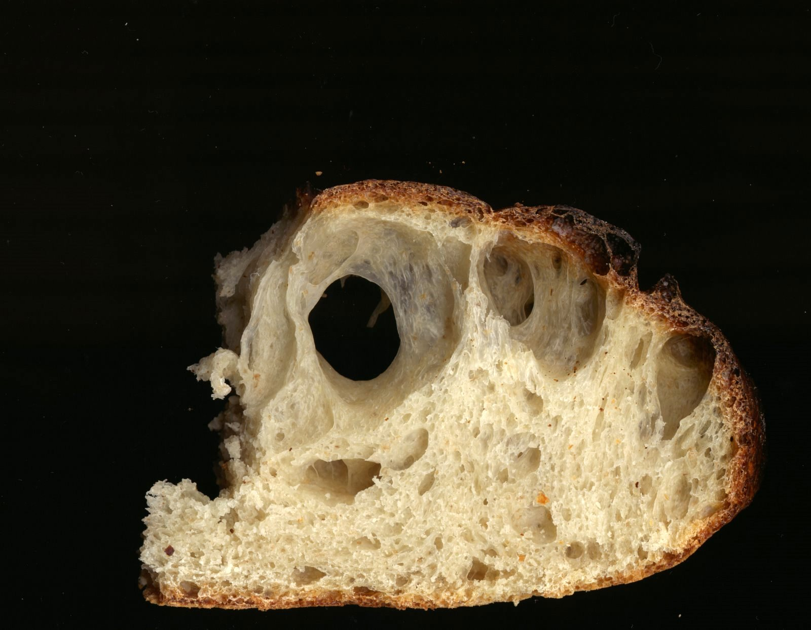 Slice of sourdough bread.